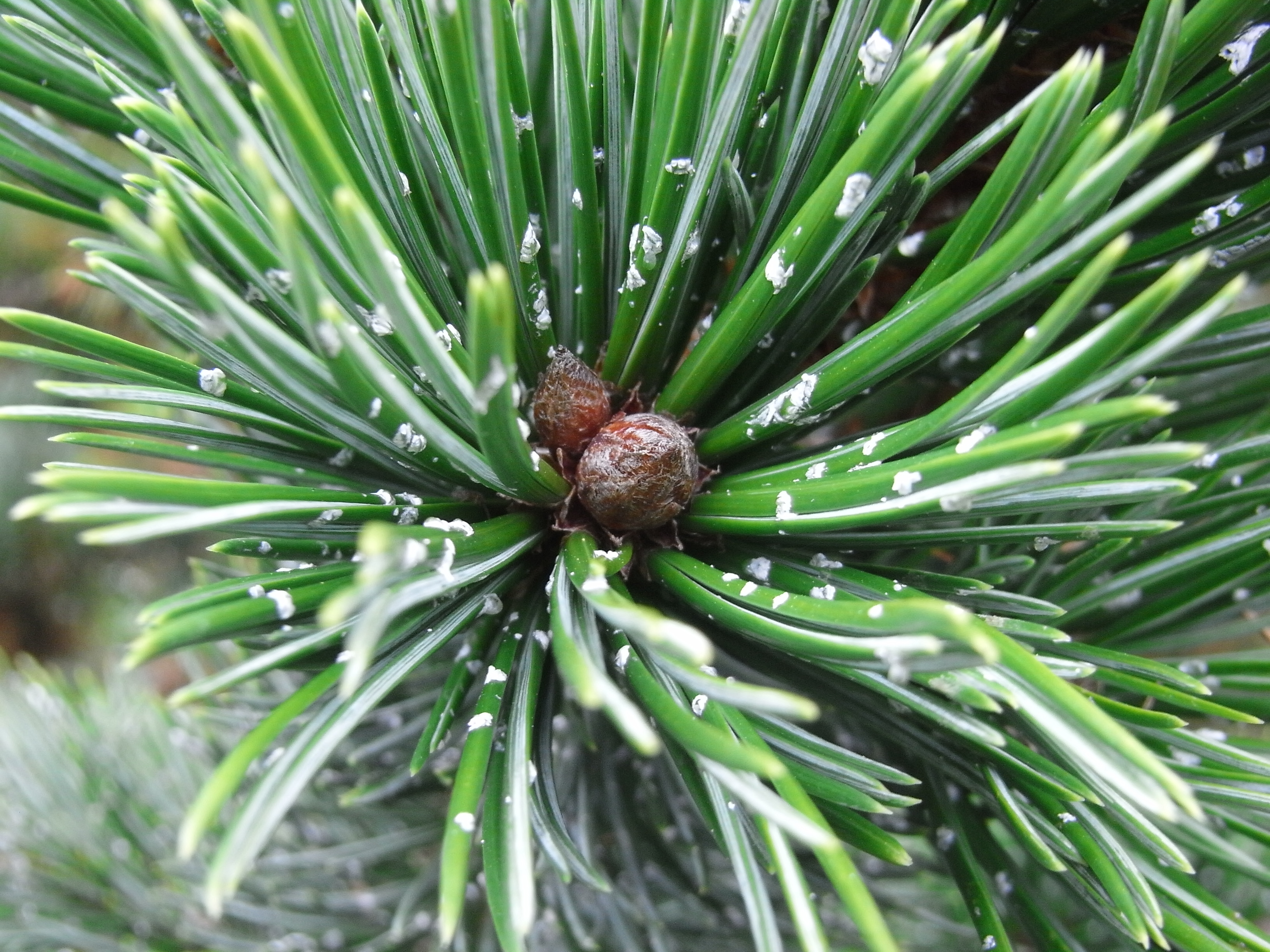 Needles of Pinus aristata with typical resin flecks